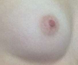 C cup human breast